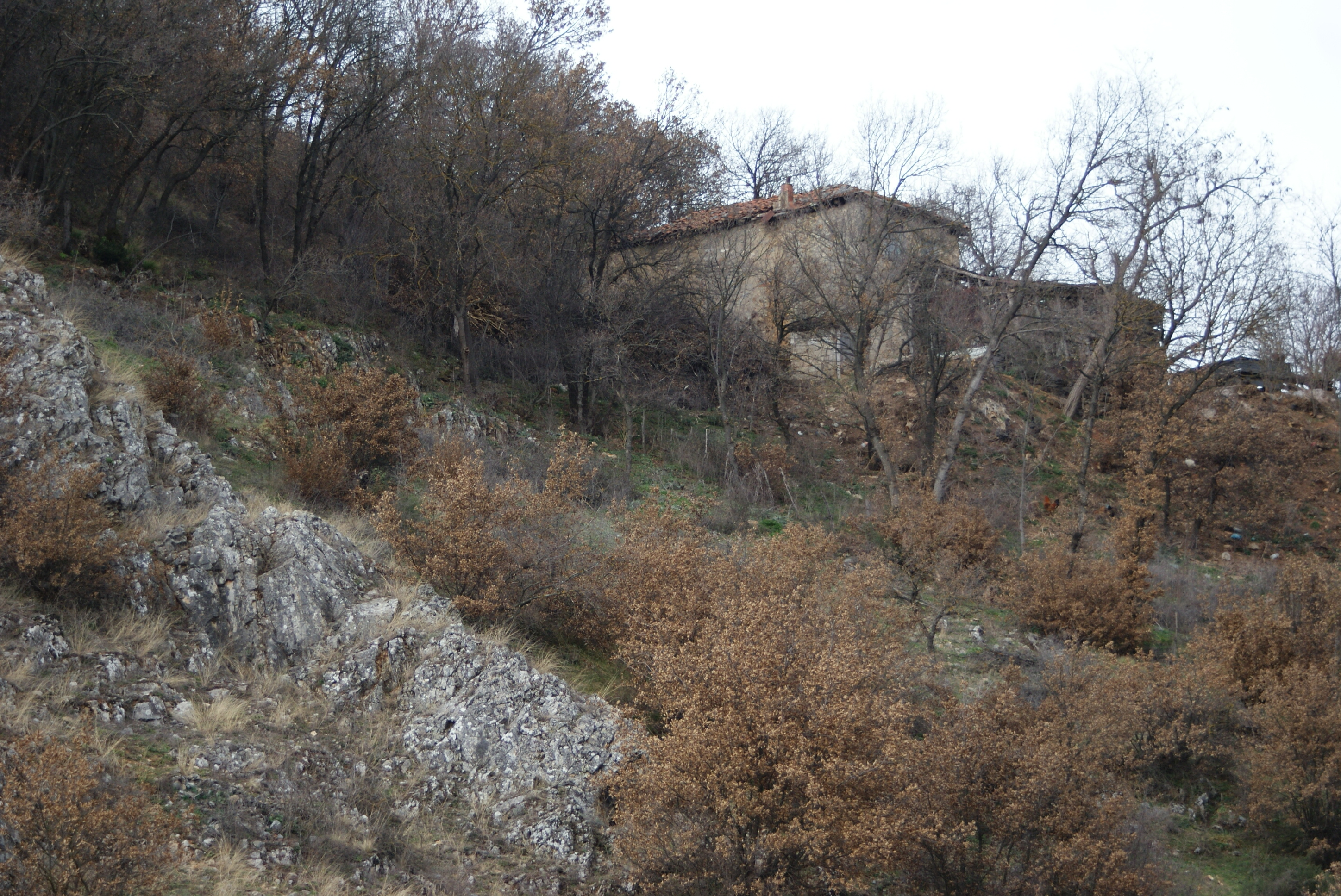 Romaja